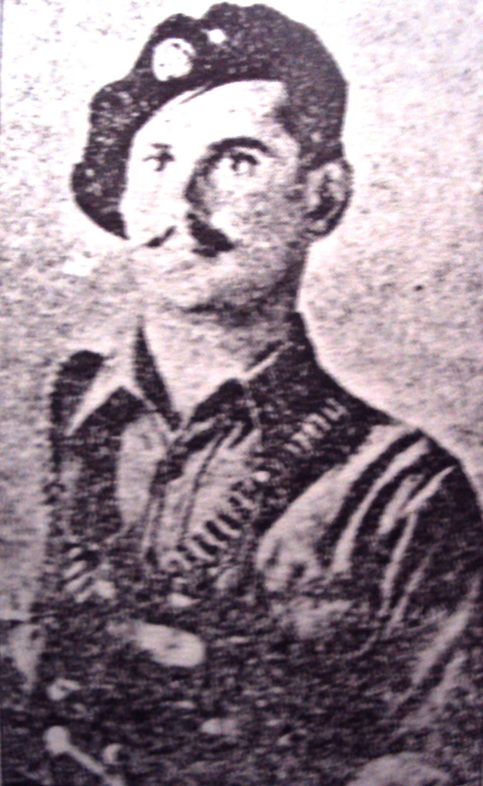 Greek officer and guerrilla commander Manolis Stathakis